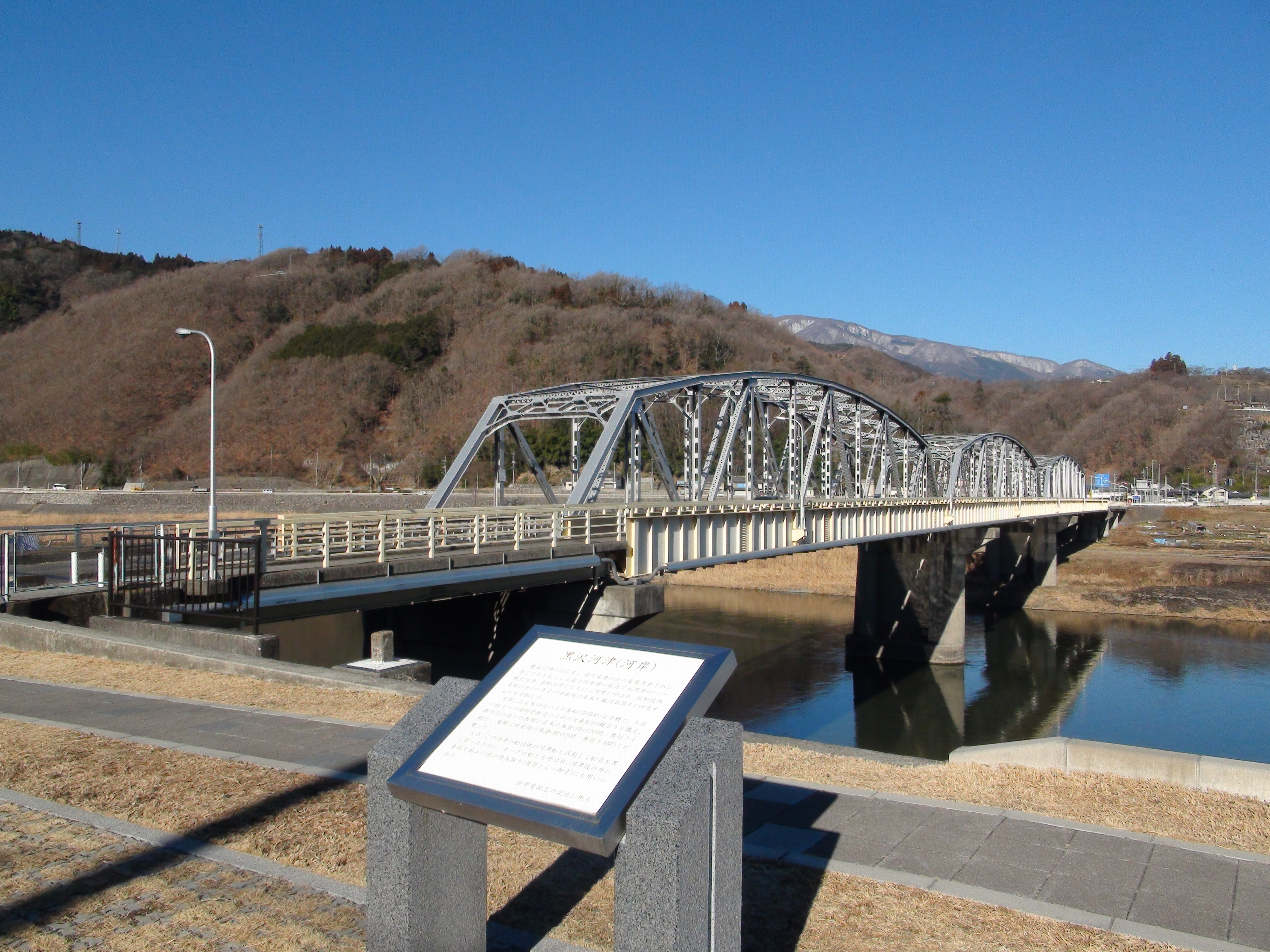 From the eastern side of Fuji bridge, heading NW